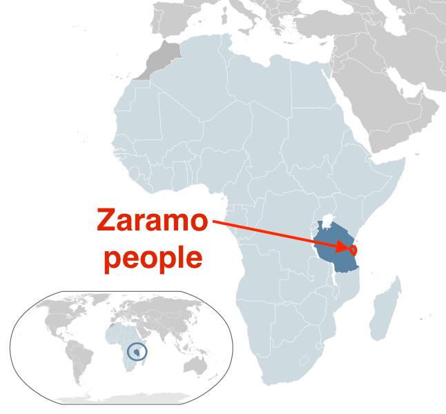 Zaramo people are an East African ethnic group found along the coast of Tanzania, who converted to Islam during the slave trading period. Their highest concentrations are found in and near Dar es Salaam, the capital of Tanzania. This is a derivative work on the following wikipedia image: File:Location Tanzania AU Africa.svg